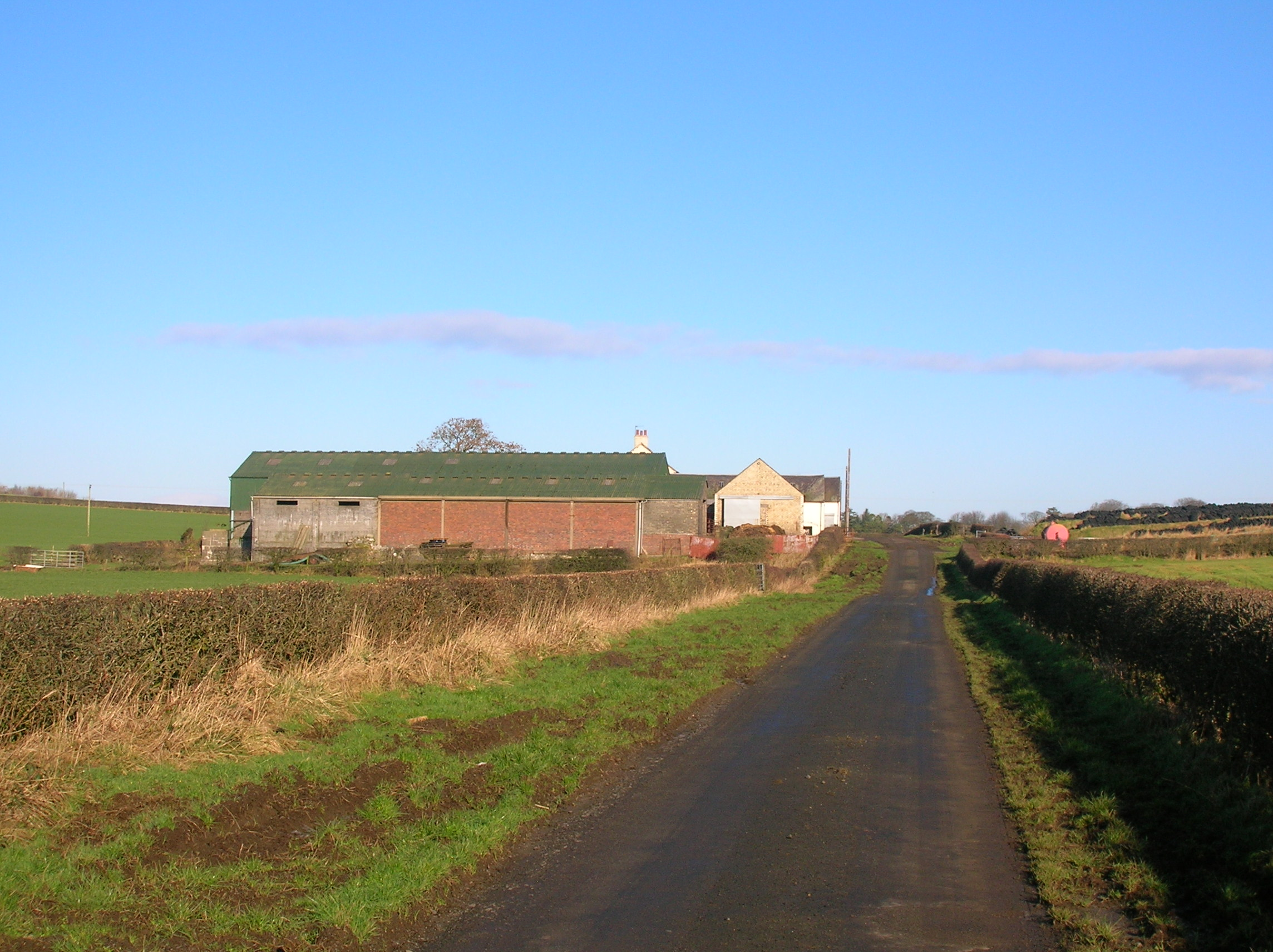 Bankend Farm, previously Sandilands in East Ayrshire near Kennox in 2007.